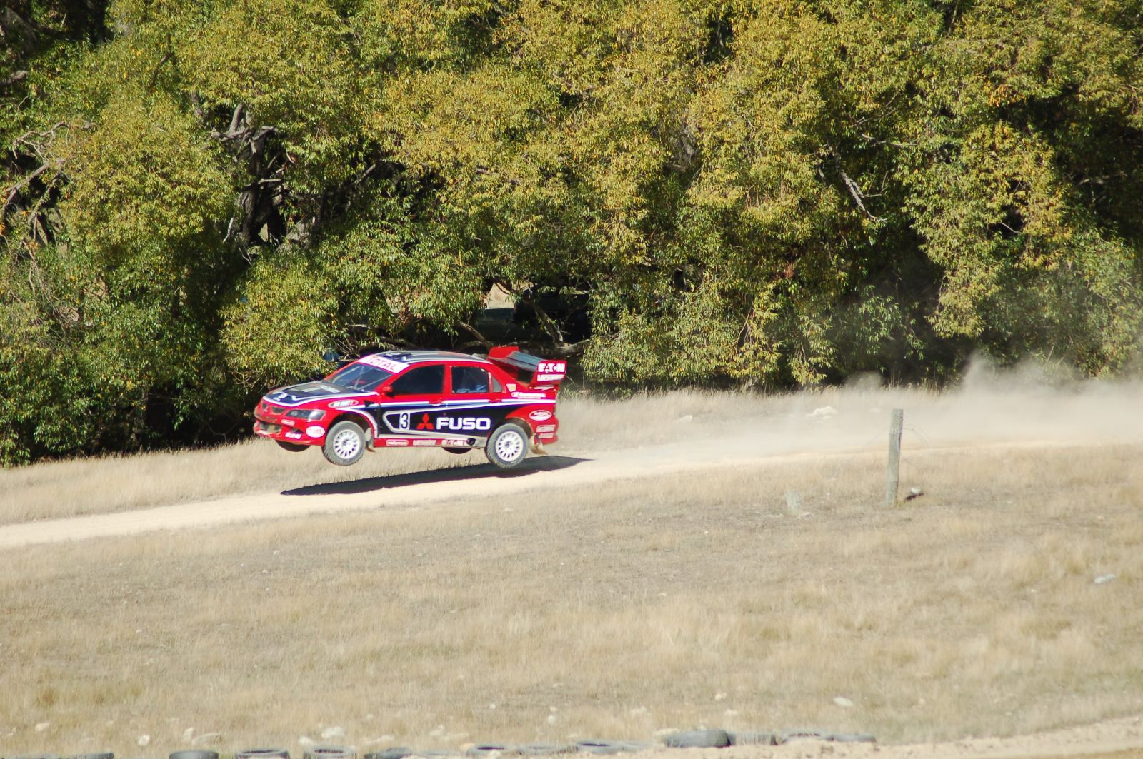 A car racing up the hill at the Race to the Sky in New Zealand. Most people took it easy over the jump, but here is one that let rip - and I got the timing right. Sweet as.....